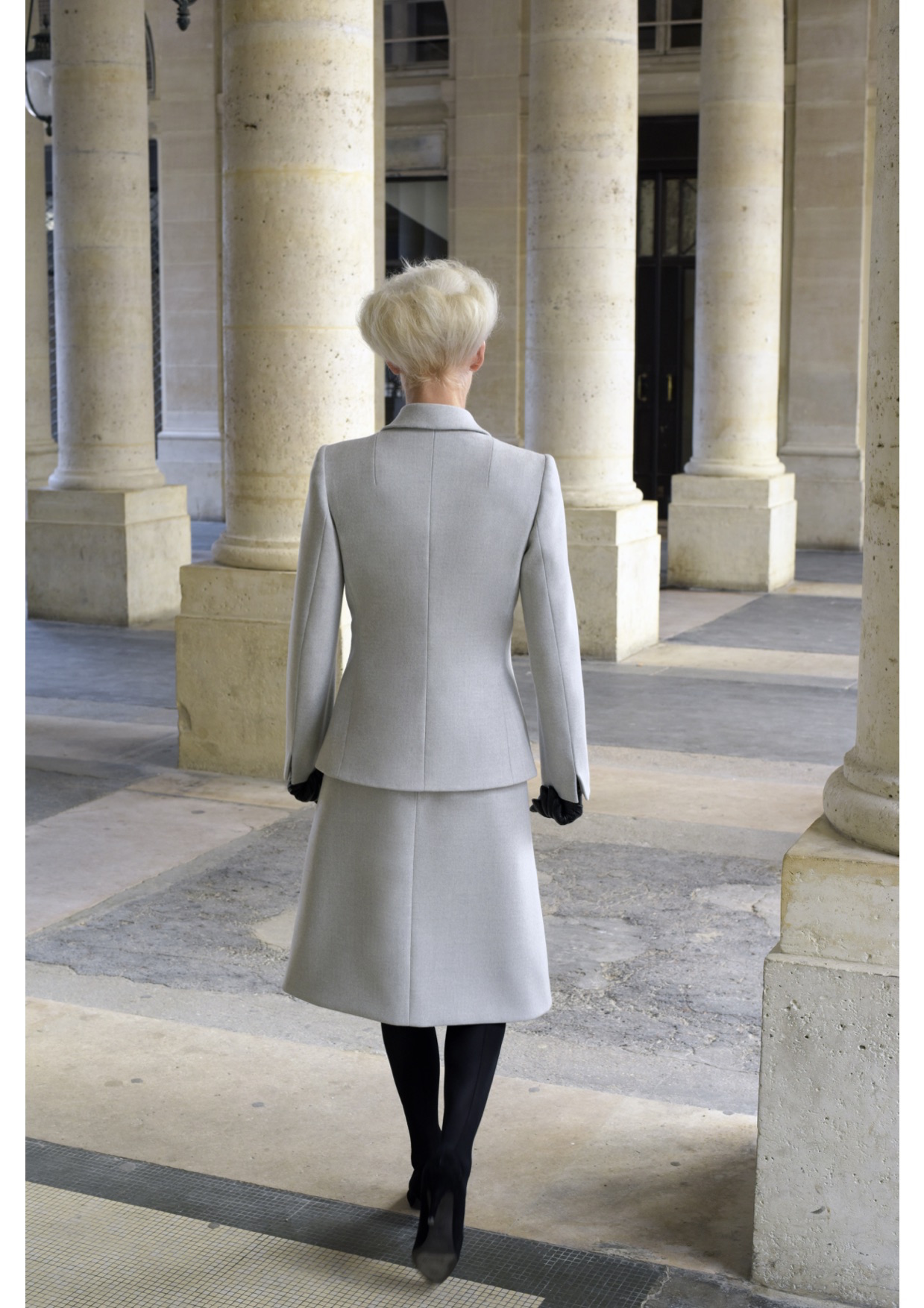 L'architecte textile Chrysopras Films